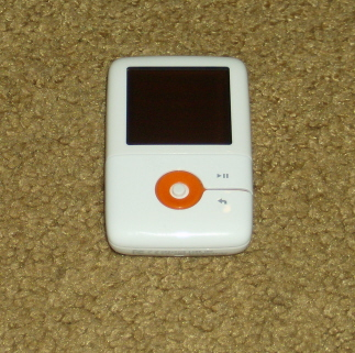 My ZEN